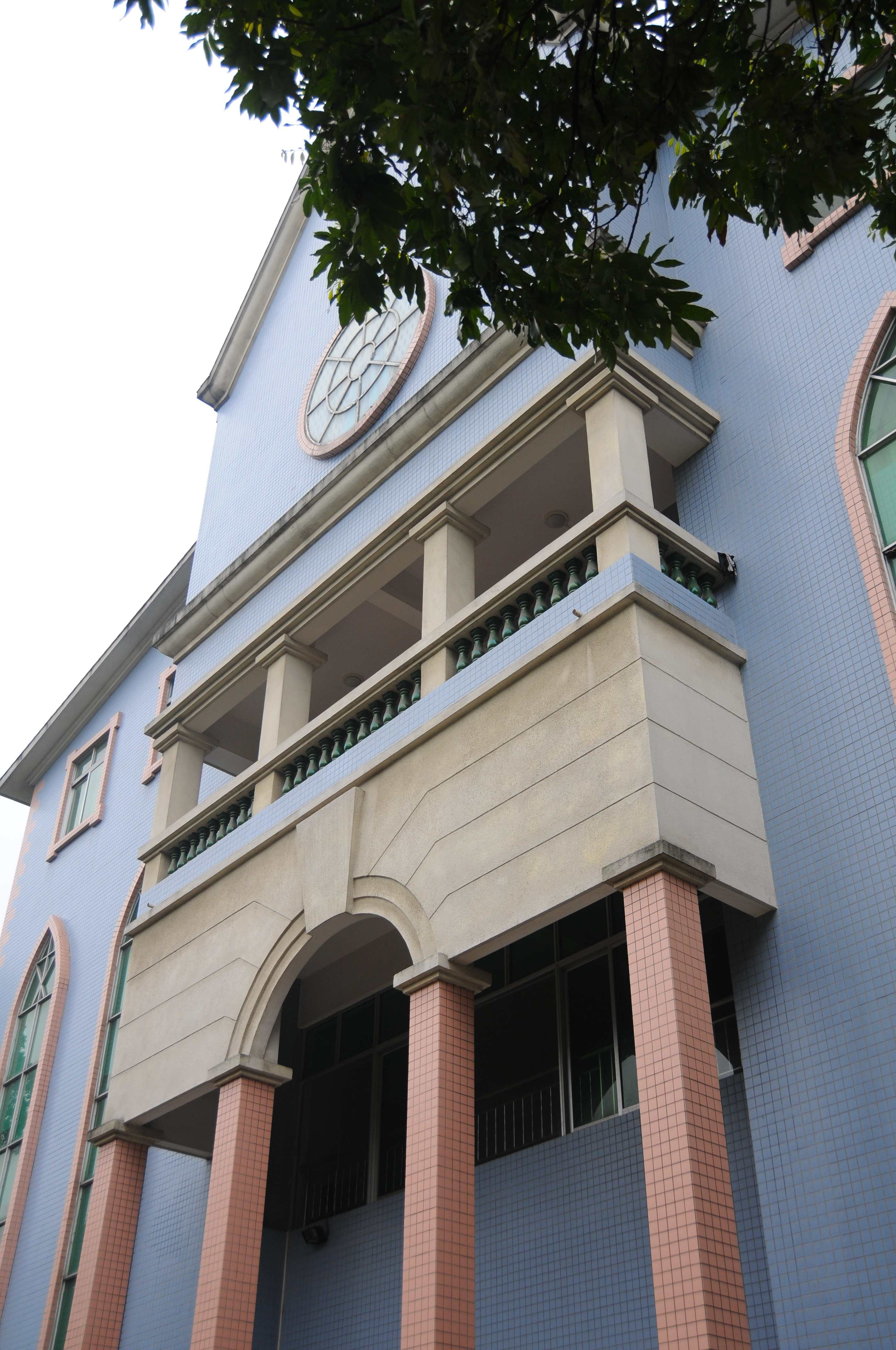 Immaculate Heart of Mary Former Cathedral in Jiangmen